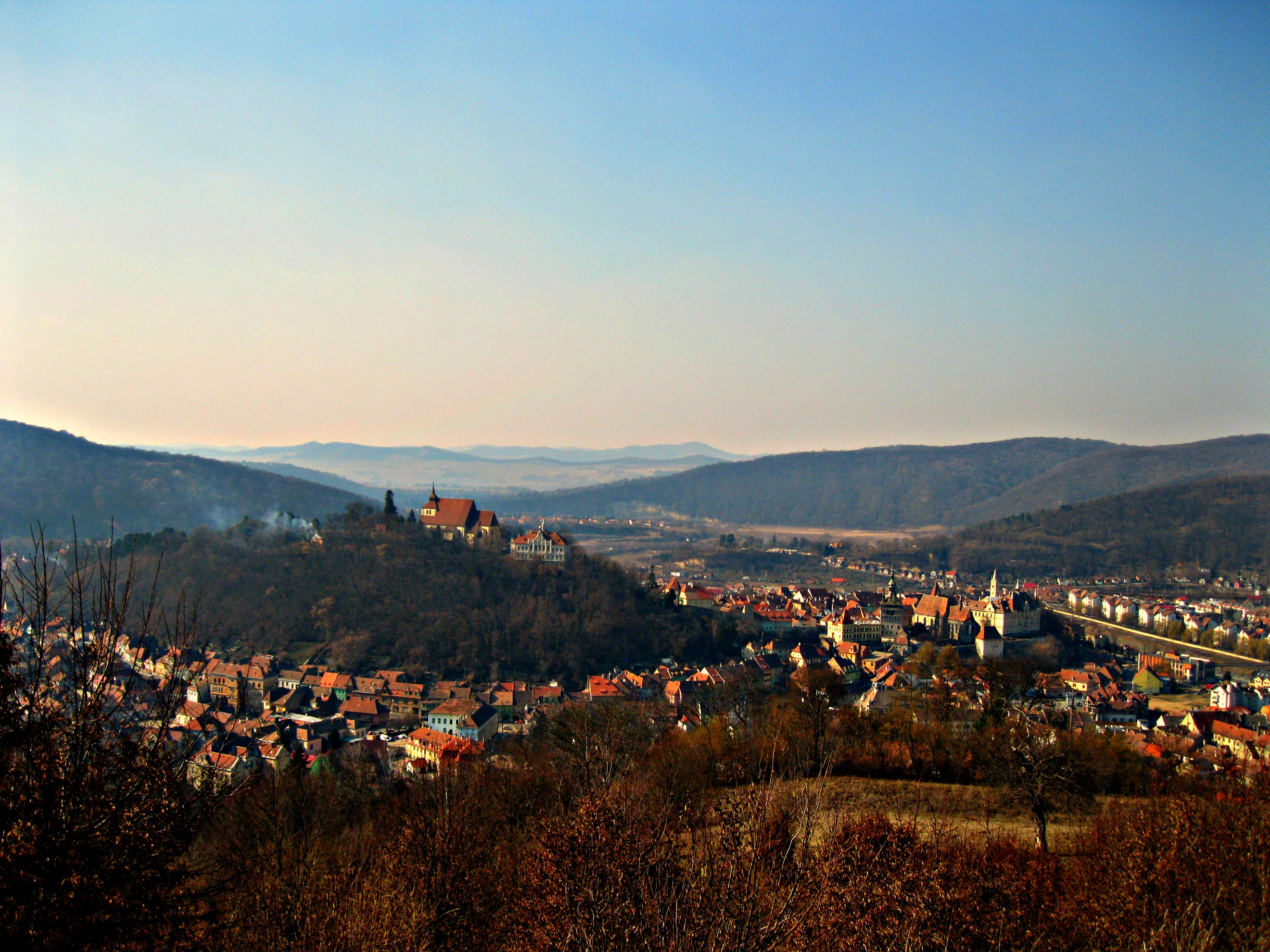 The city of Sighișoara, Romania.